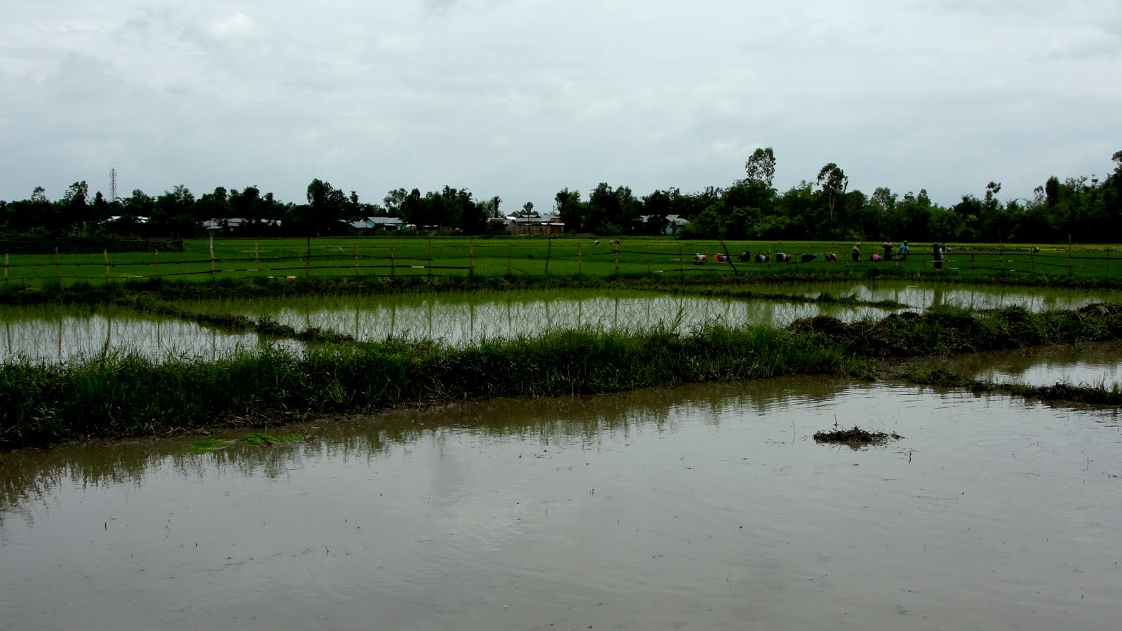 Farmers planting rice saplings.